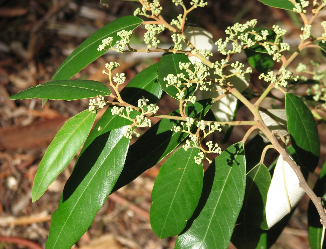 Leaves and flower buds of Alphitonia excelsa (cultivated, labelled) Maranoa Gardens, Balwyn, Victoria, Australia